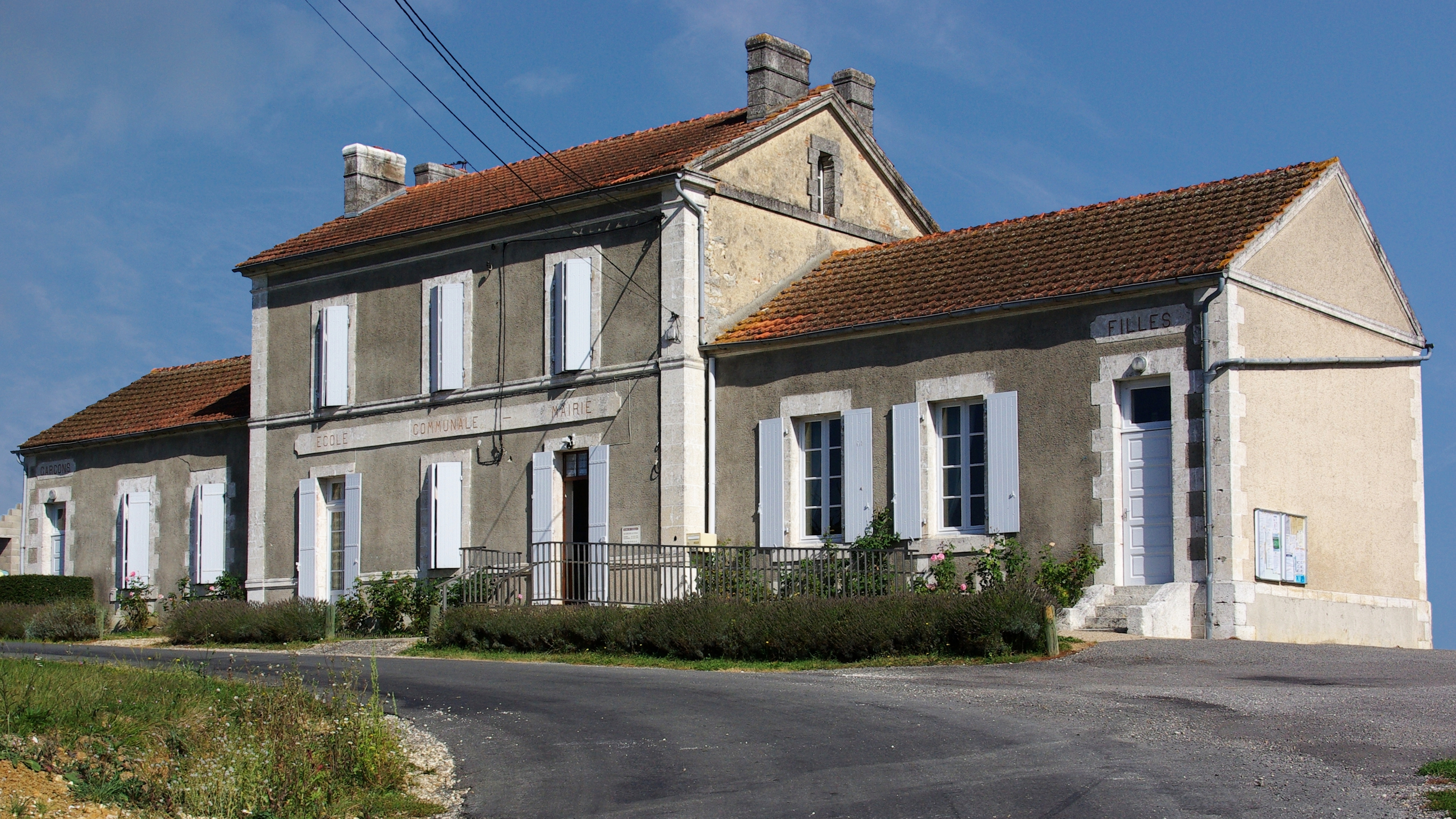 City hall of Courgeac, Charente, France.